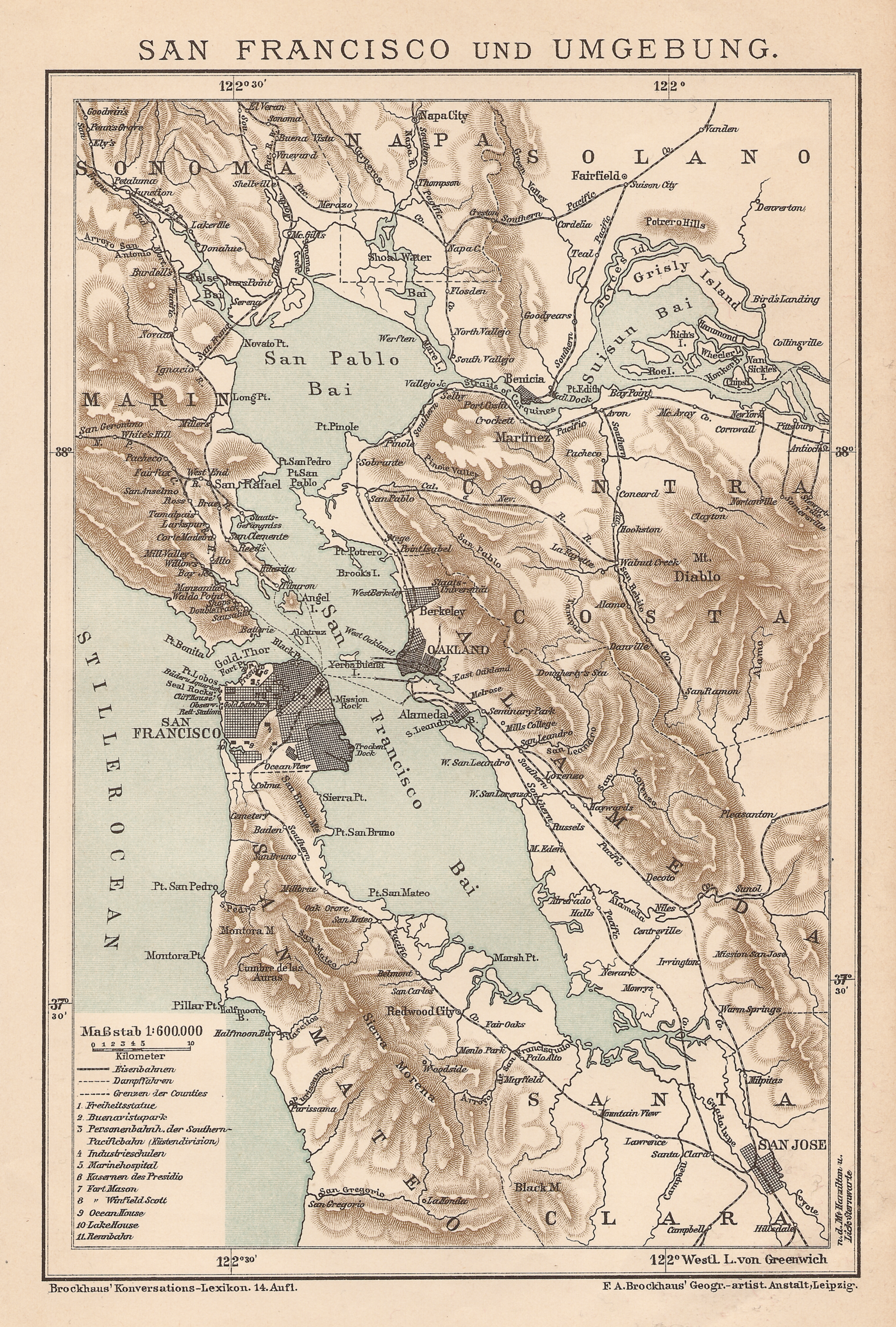 German map of San Francisco Bay Area